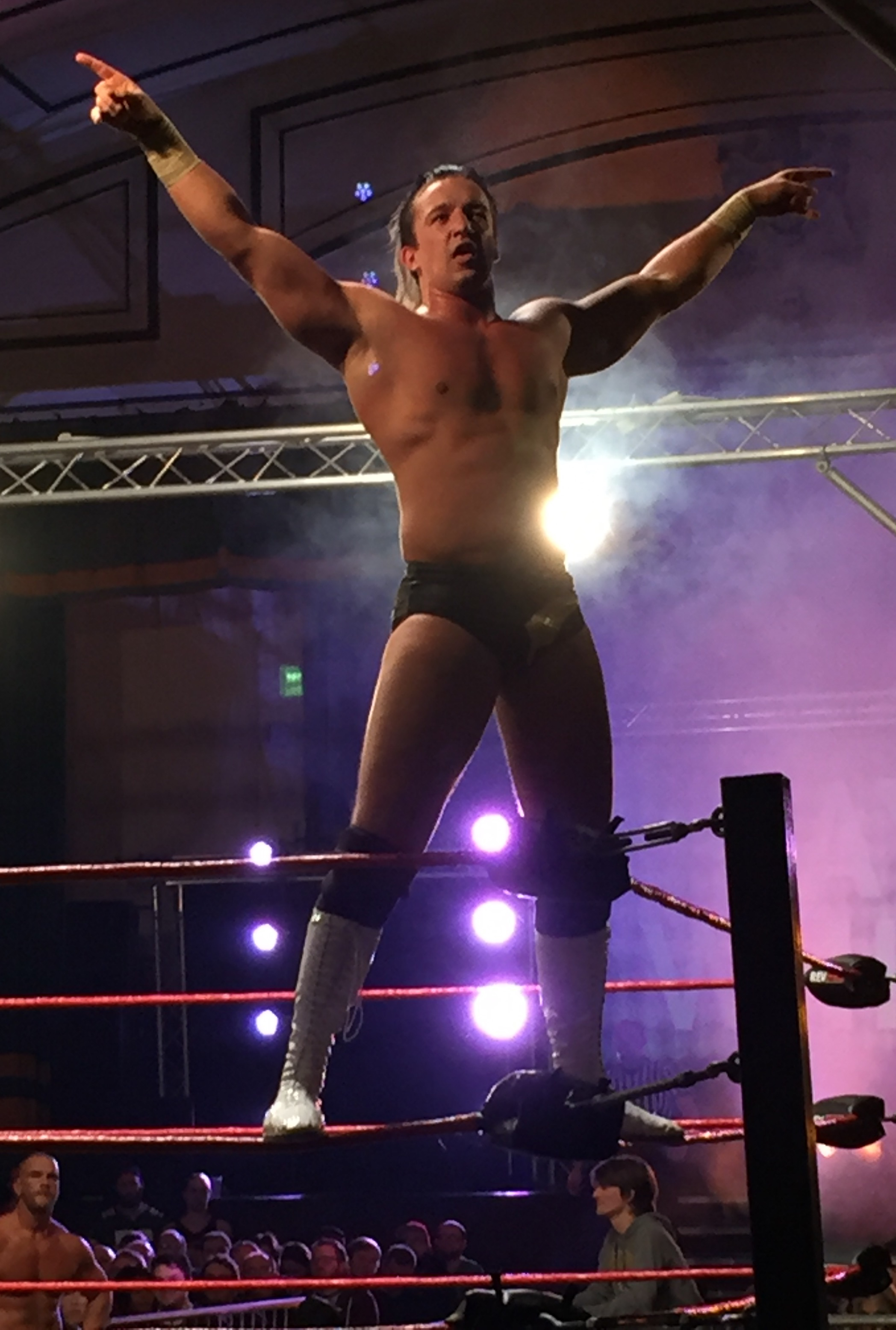 Jay White at RPW High Stakes 2017